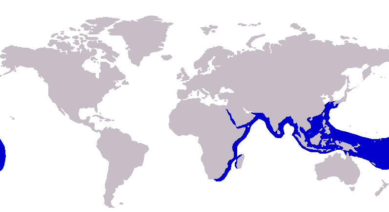 Distribution of barcheek trevally, Carangoides plagiotaenia using map based on GDFL image